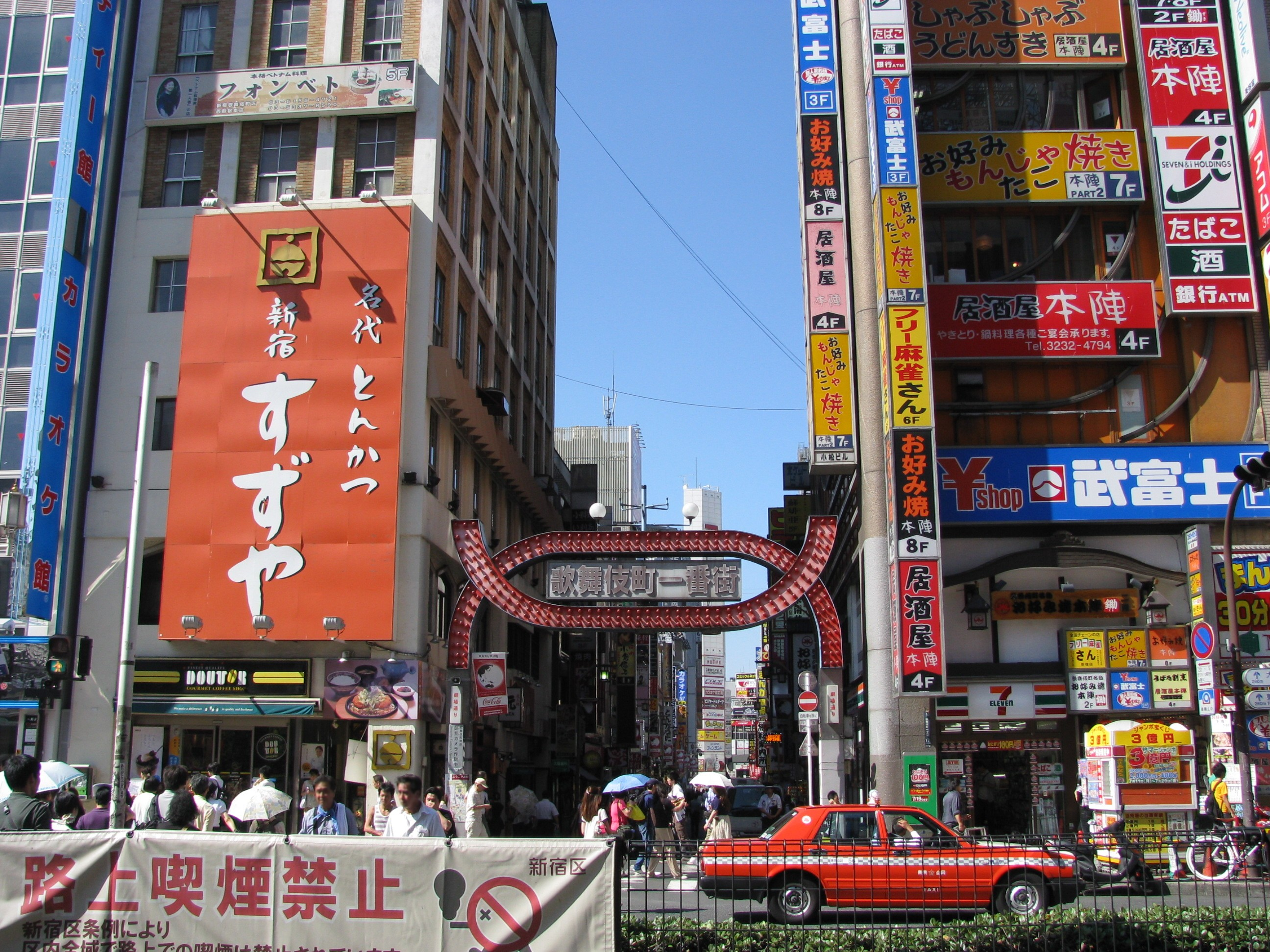 Entrance of the Kabukichō, in Shinjuku, Tokyo, Japan.